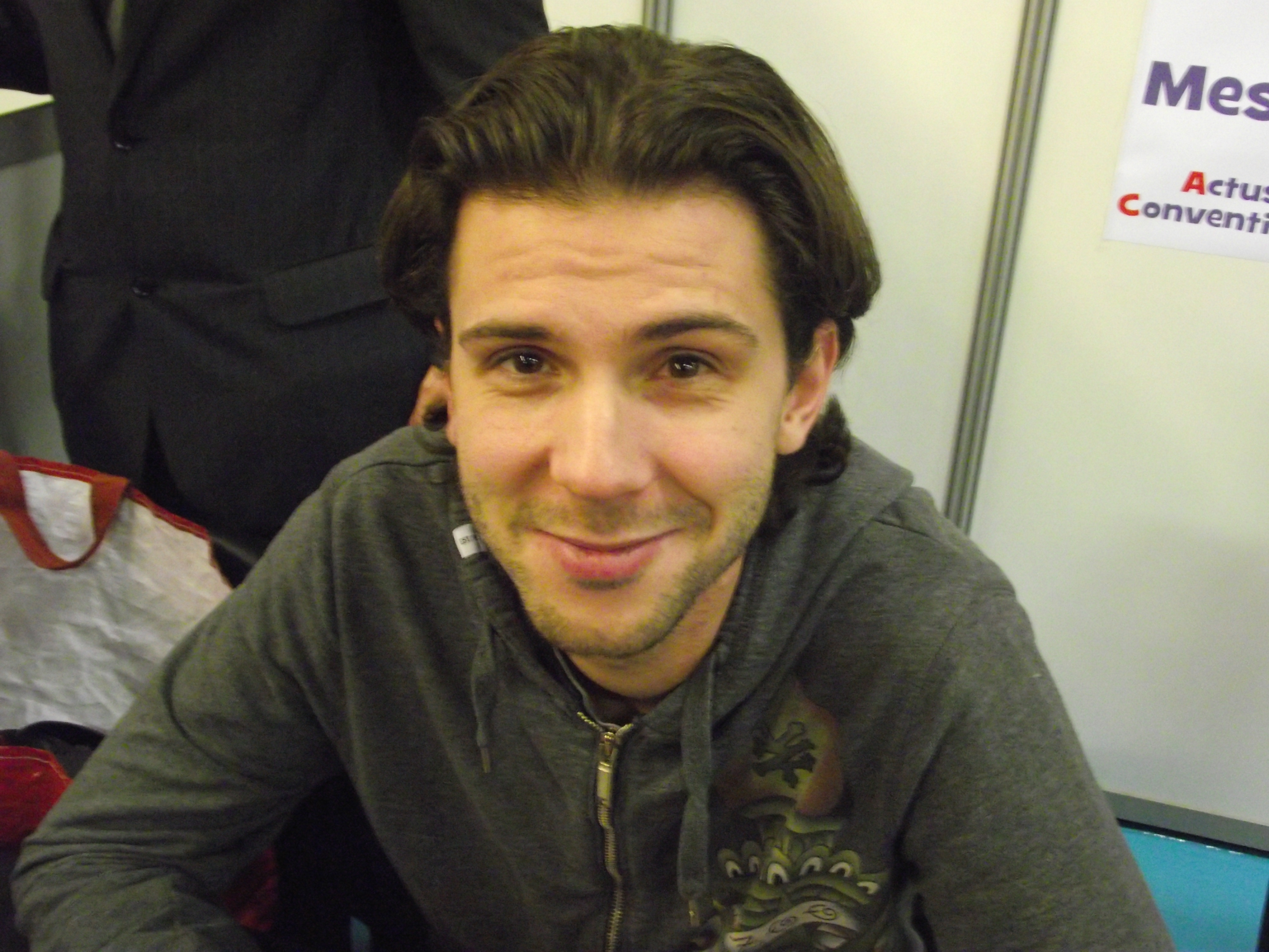 Donald Reignoux en dédicace le 5 février 2012 au Paris Manga.